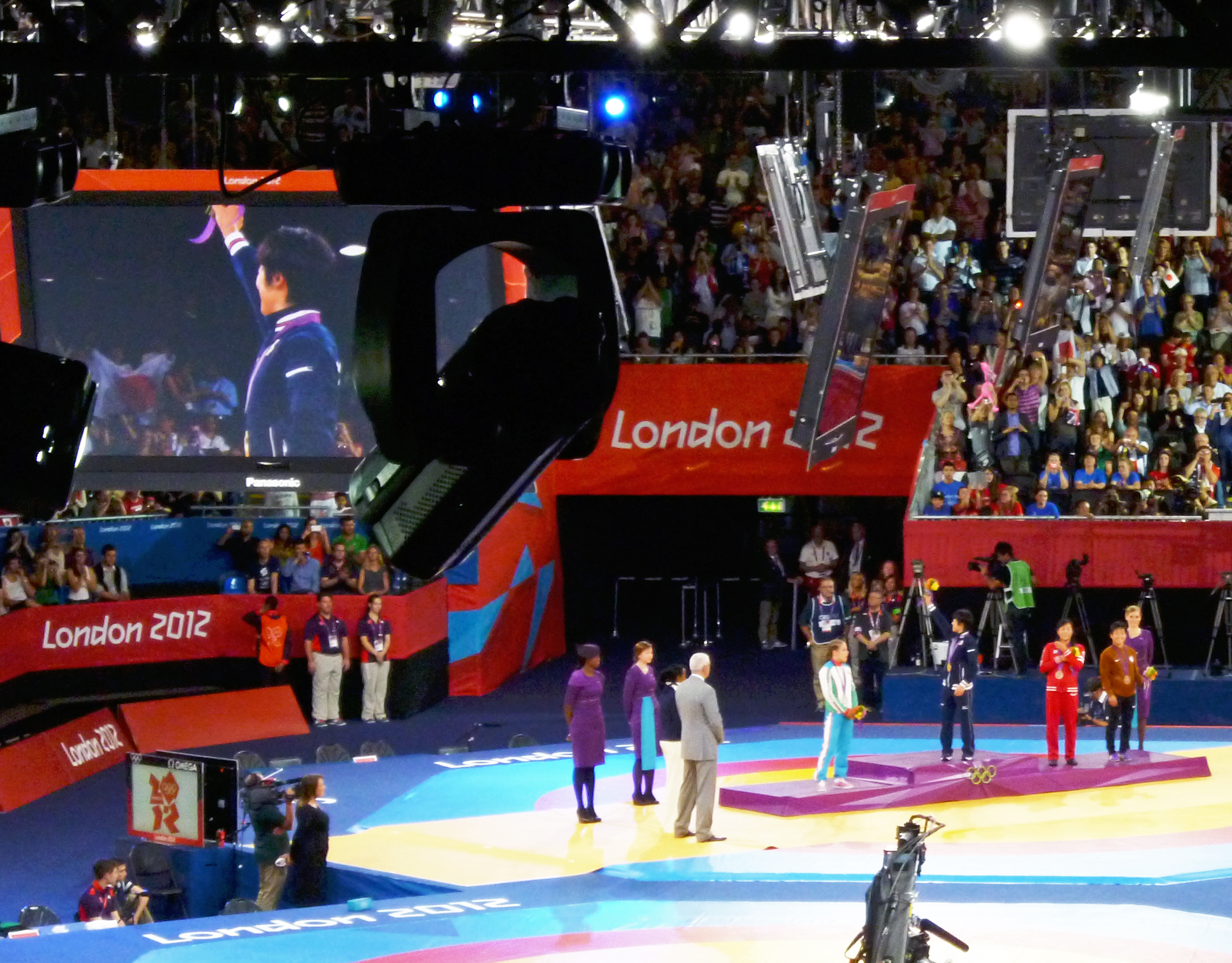 Medalists at the London 2012 Olympics Women's Freestyle Wrestling (48 kg): Obara, Stadnyk, Huynh, Chun